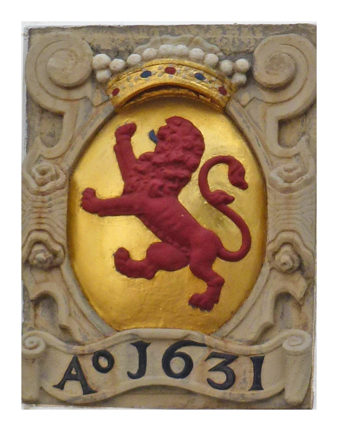 Gablestone with Red Lion on a golden background